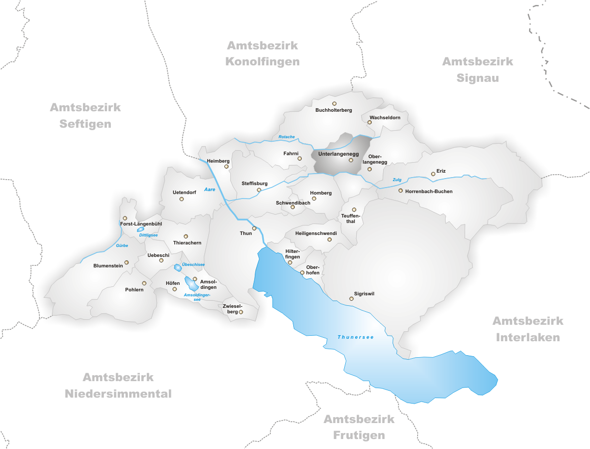 Municipality Unterlangenegg